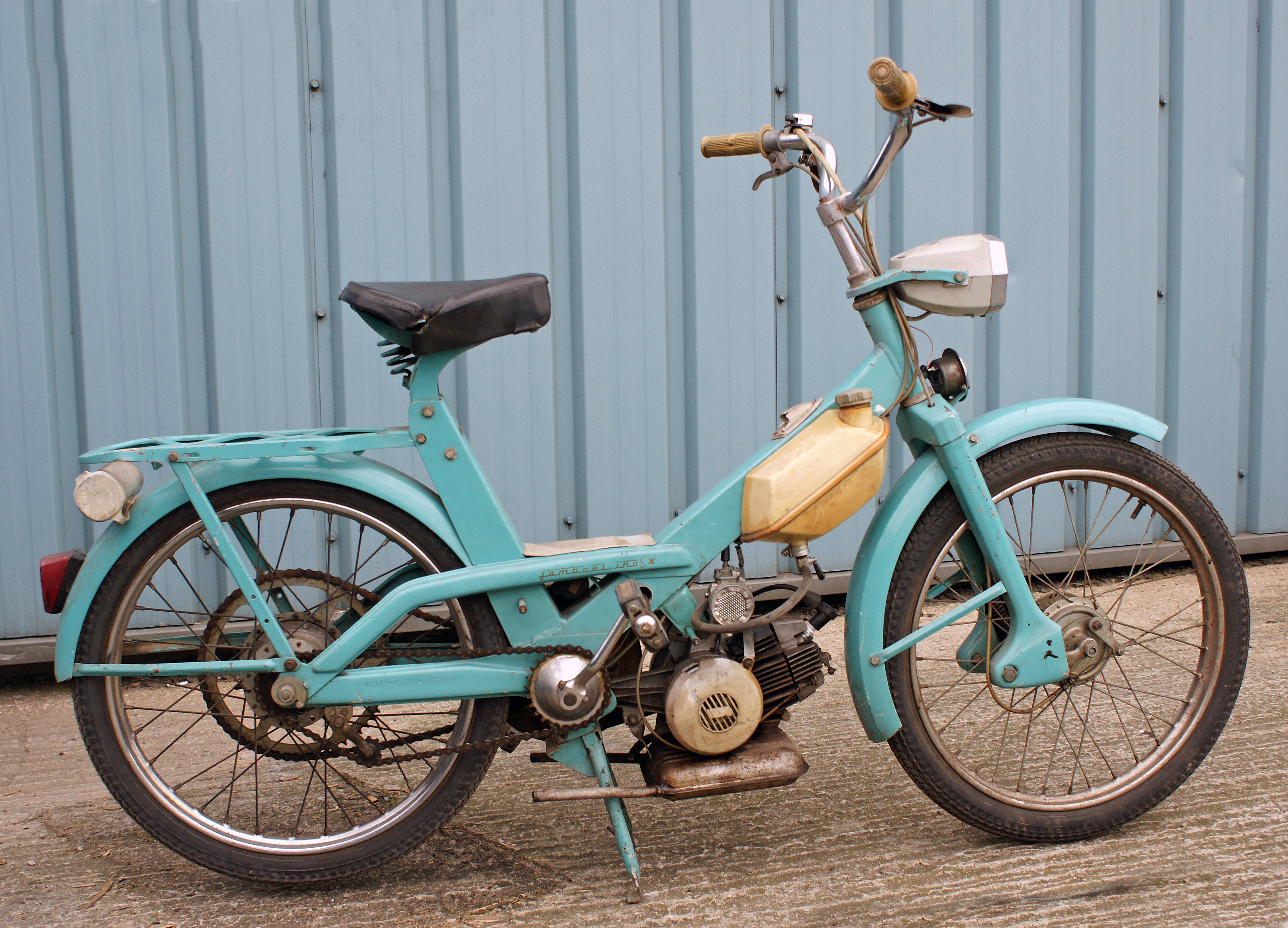 Lambrettino, a 38 cc single-seat moped introduced in 1966